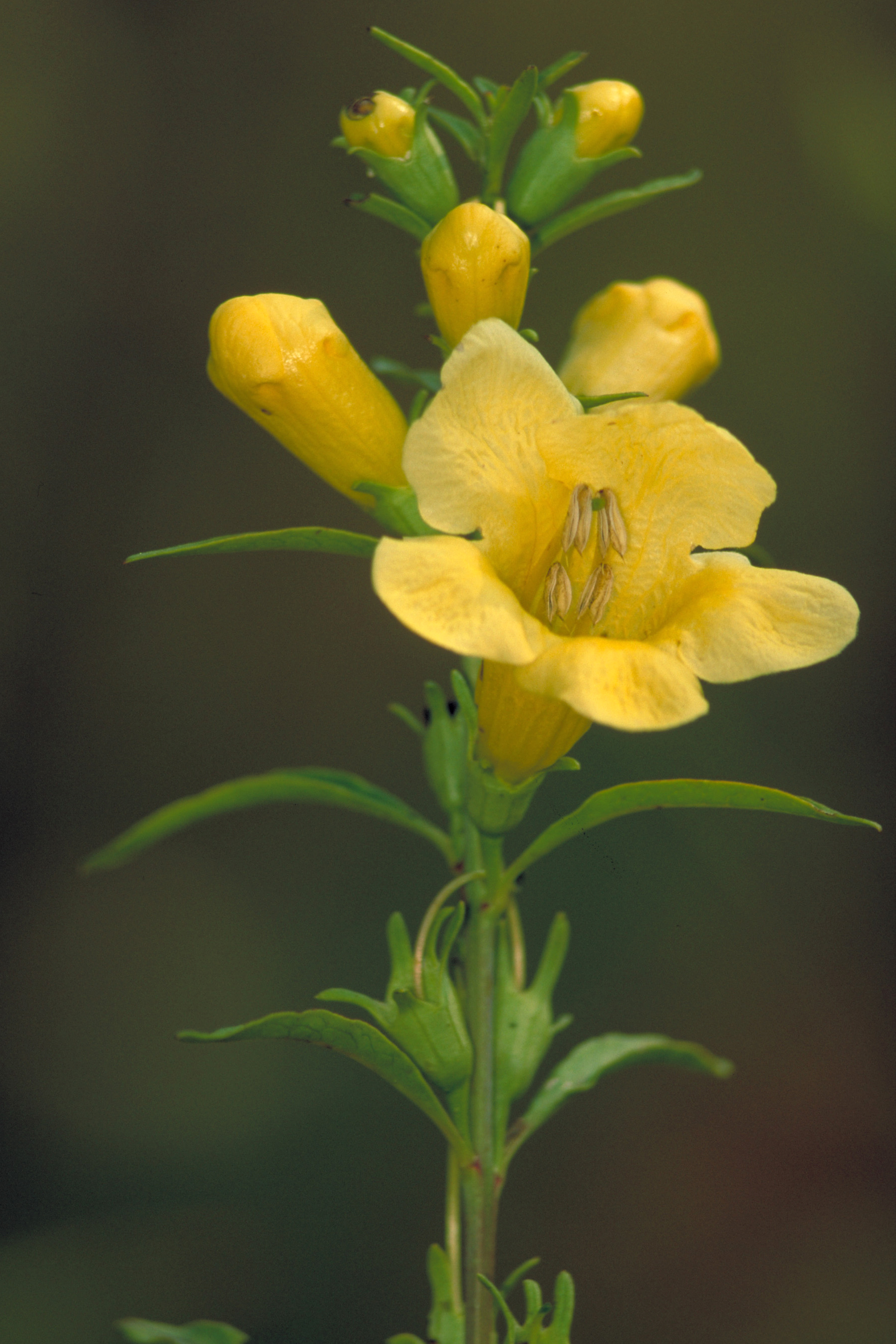 Image title: False foxglove flower aureolaria flava Image from Public domain images website, Update from: Note: Two versions of this photograph (one a mirror image) appear on the USDA-NRCS website listed as Aureolaria virginica (L.) Pennell - downy yellow false foxglove, by the same photographer, but marked as copyrighted. The FWS site however, lists this image as Aureolaria flava and in the public domain.